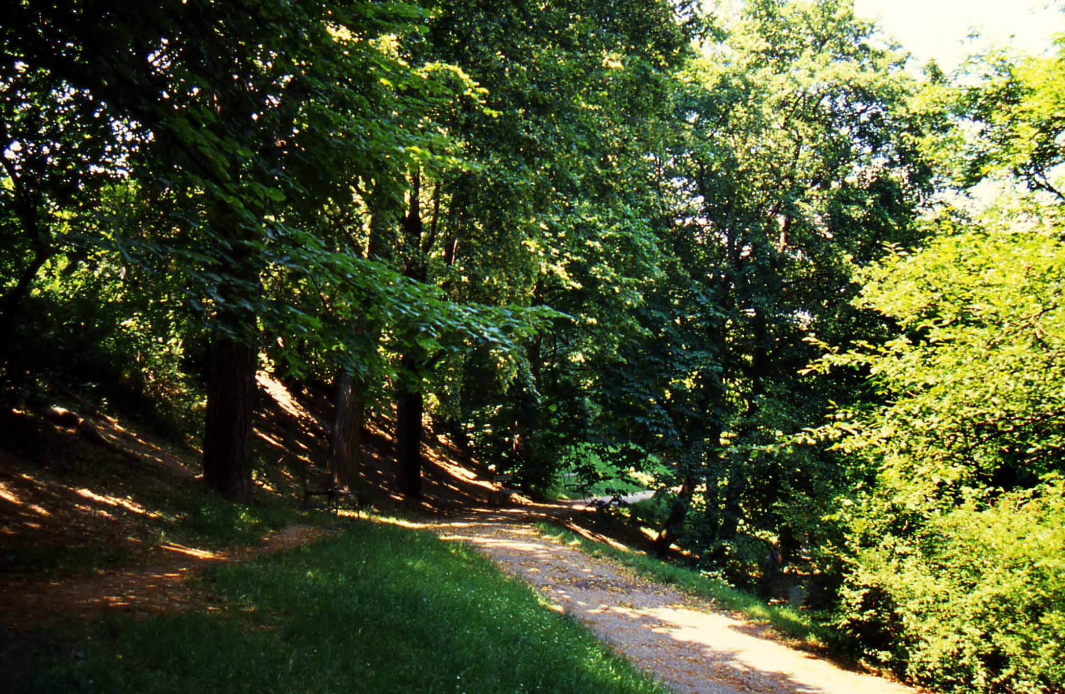 Ludwig v. Beethoven / Vienna-Heiligenstadt.One of its walking paths led along the creek: "Schreiberbach" (Beethoven passage).